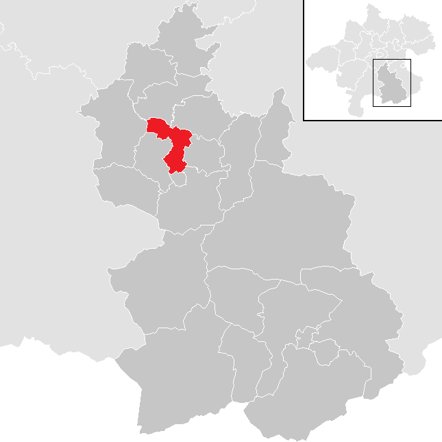 district Kirchdorf an der Krems